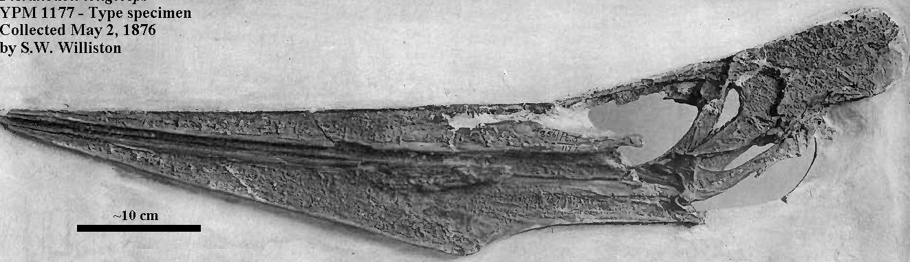 The skull of the type specimen of Pteranodon longiceps (YPM 1177) in left lateral view, collected by S.W. Williston on May 2, 1876 from the "Yellow Chalk" near the Smoky Hill River in western Kansas, and described by Marsh (1876). Photo adapted from Plate 1 of Eaton (1910). Note that the crest is broken off. The greatest preserved length of the skull is 73 cm (28 inches).